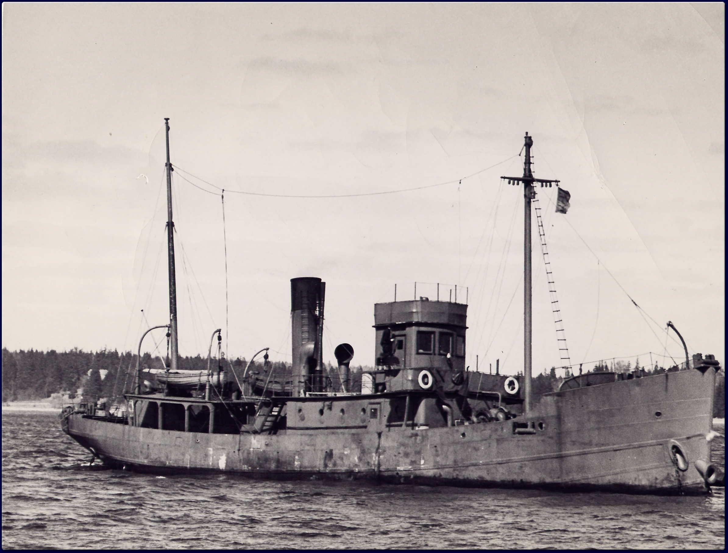 Photograph of Canadian Battle class naval trawler HMCS St Eloi.